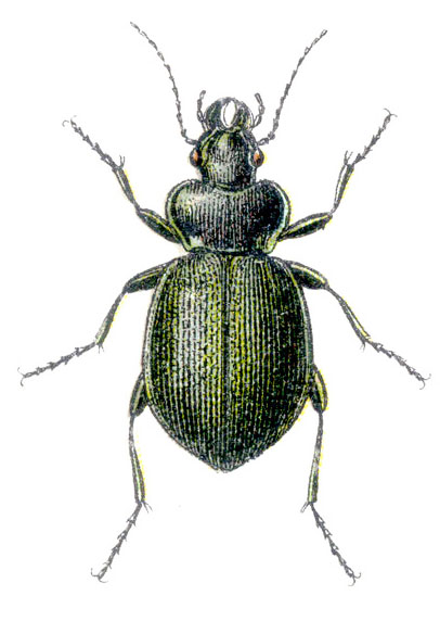 Adult, dorsal view